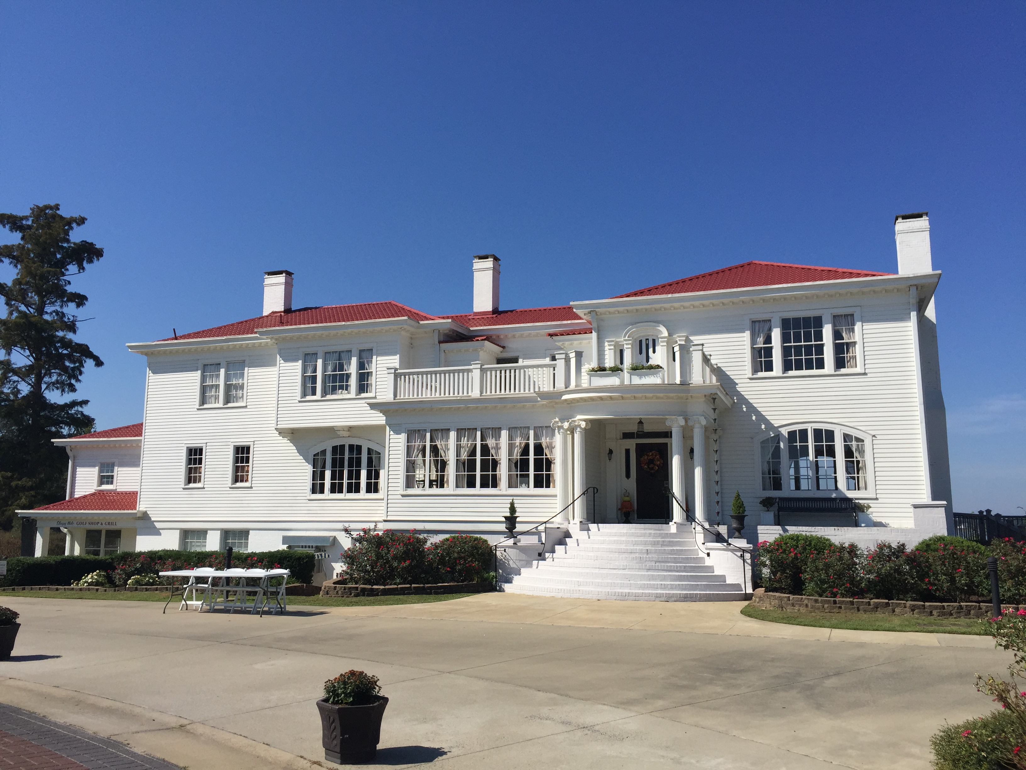 Obici House at Bay Point Farm in Suffolk, Virginia, 2018. The house and farm are listed on the U.S. National Register of Historic Places